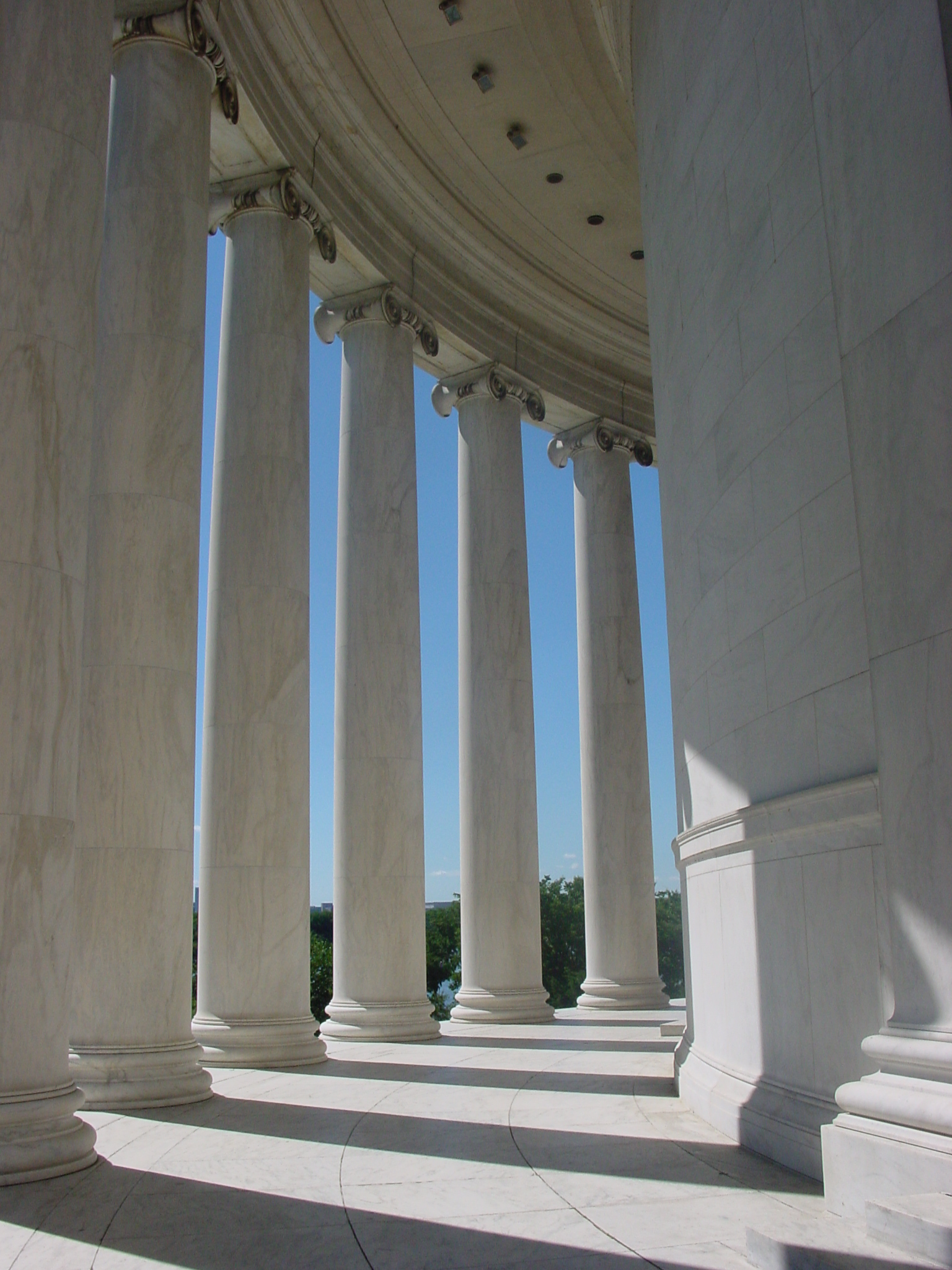 This photograph is of the columns that surround the Jefferson Memorial in Washington, DC. It was taken a few minutes after the President of the United States left. Since the public was not allowed inside during the visit, I made sure I was one of the first people back inside so that I could take this picture before it filled back up with people.